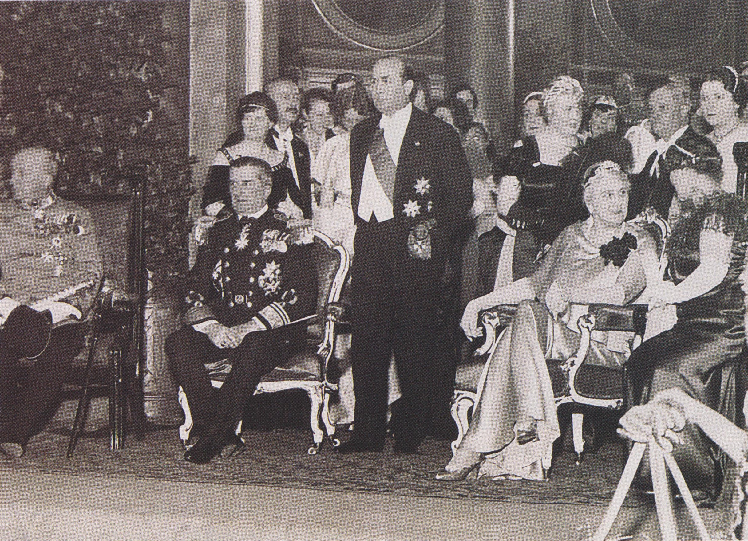 Ball of the Order of Vitéz in February 1934: From left to right: Archduke Joseph August, Regent Miklós Horthy, Prime Minister Gyula Gömbös and First Lady Magdolna Purgly.